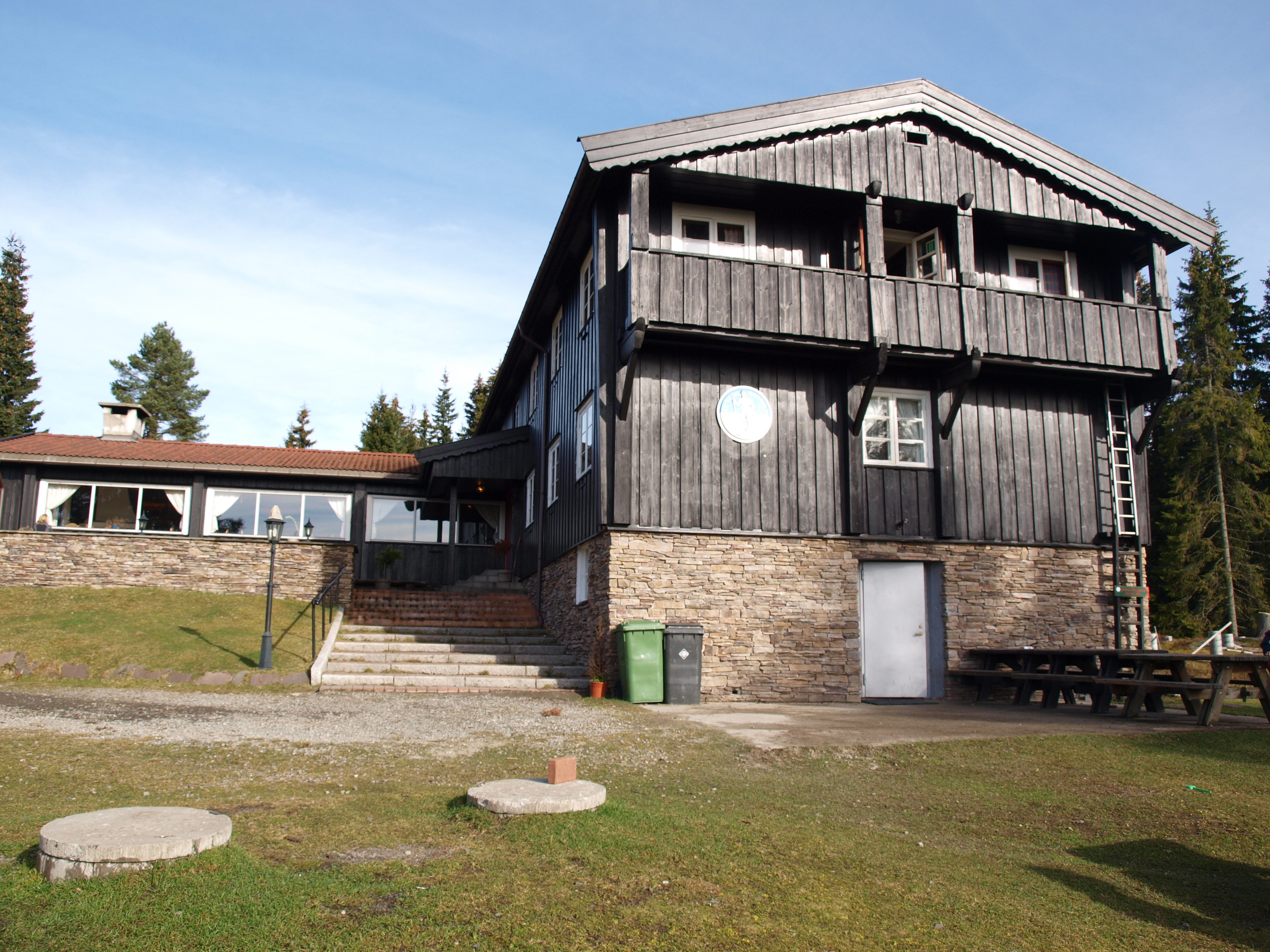 Løvlia, a tourist cabin in Krokskogen, Nordmarka, Norway.